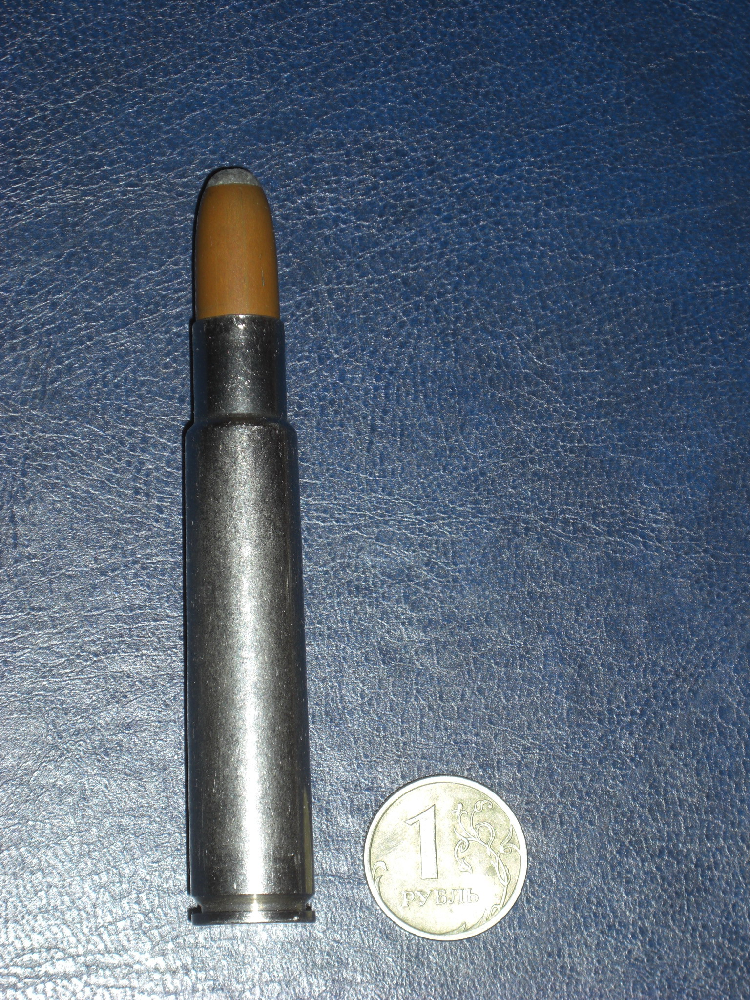 .416 Rigby cartridge